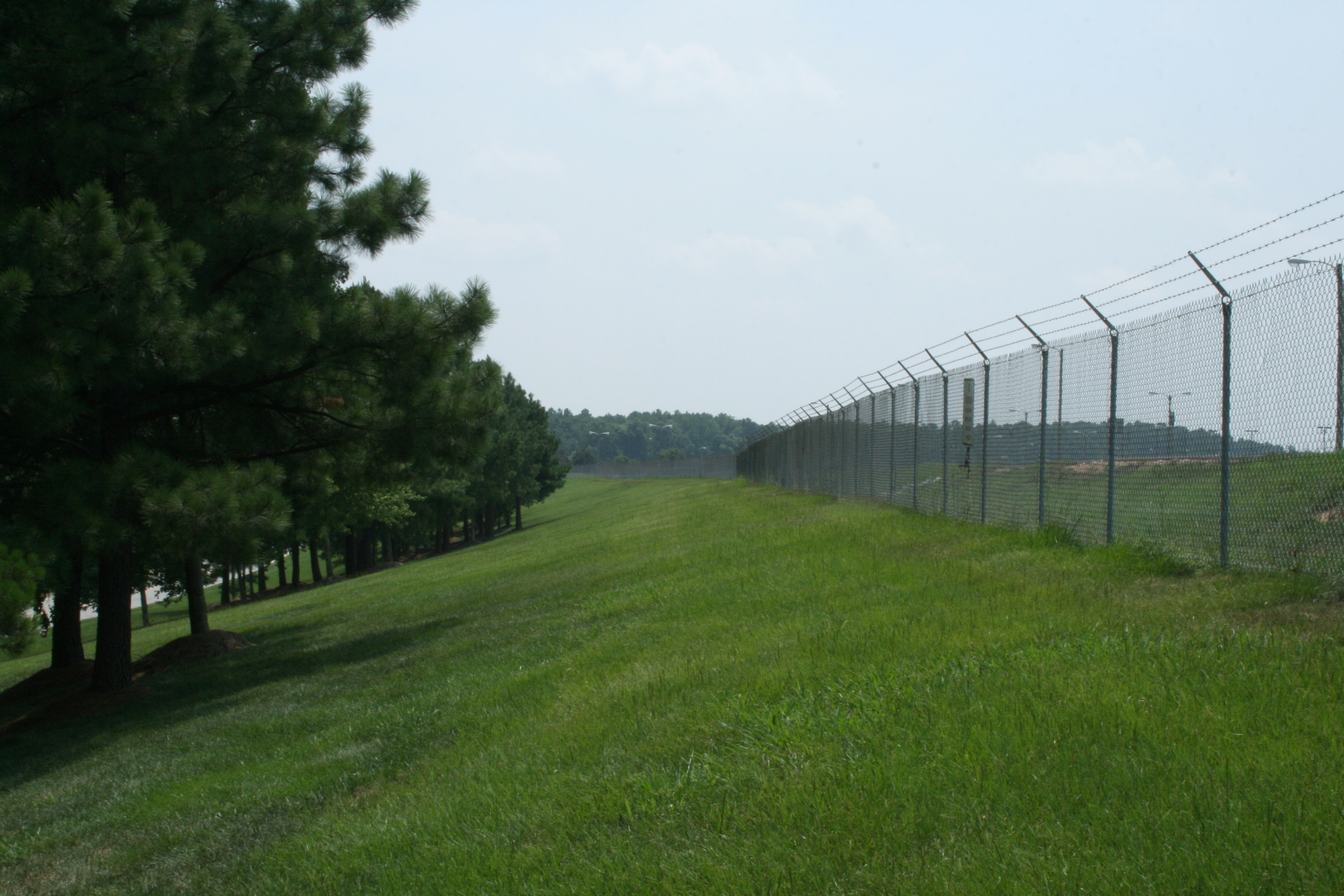 Fence along Commerce Blvd at the Raleigh-Durham International Airport.